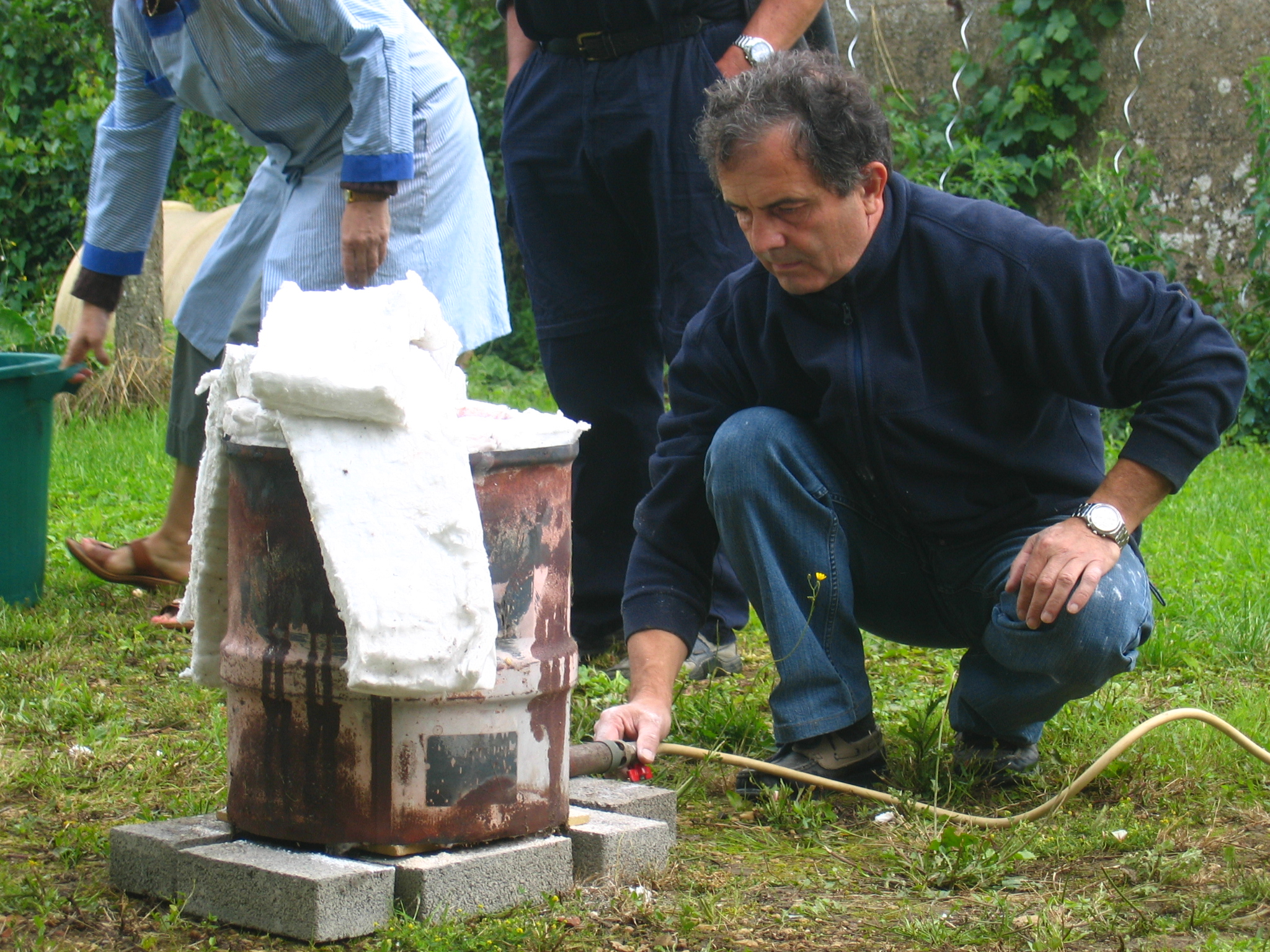 Jacques Huther during a meeting of raku